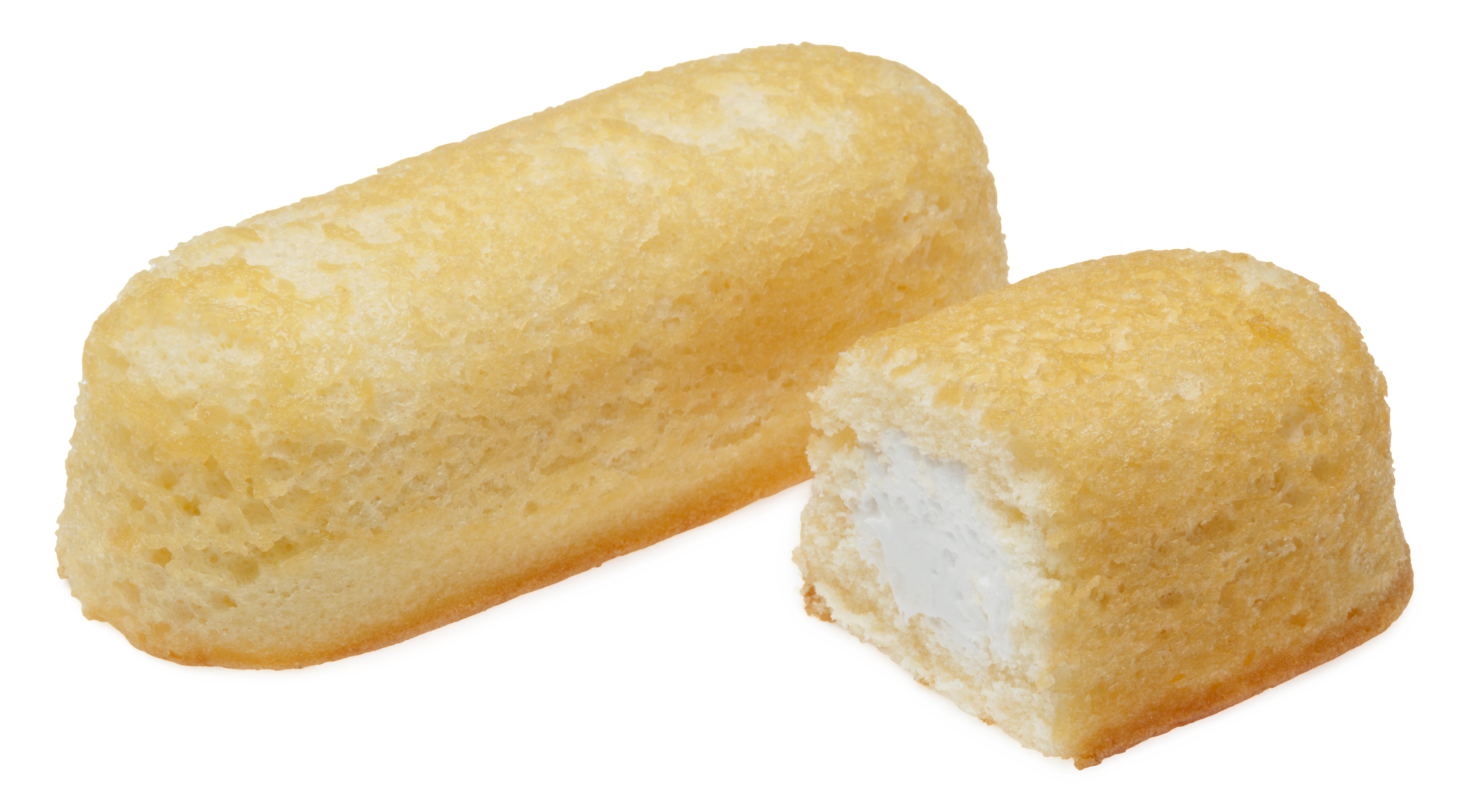 Hostess Twinkies. Yellow snack cake with cream filling.